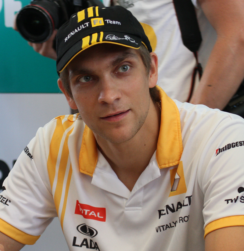 Formula One 2010 Rd.3 Malaysian GP: Vitaly Petrov (Renault) at autograph session on Sunday.